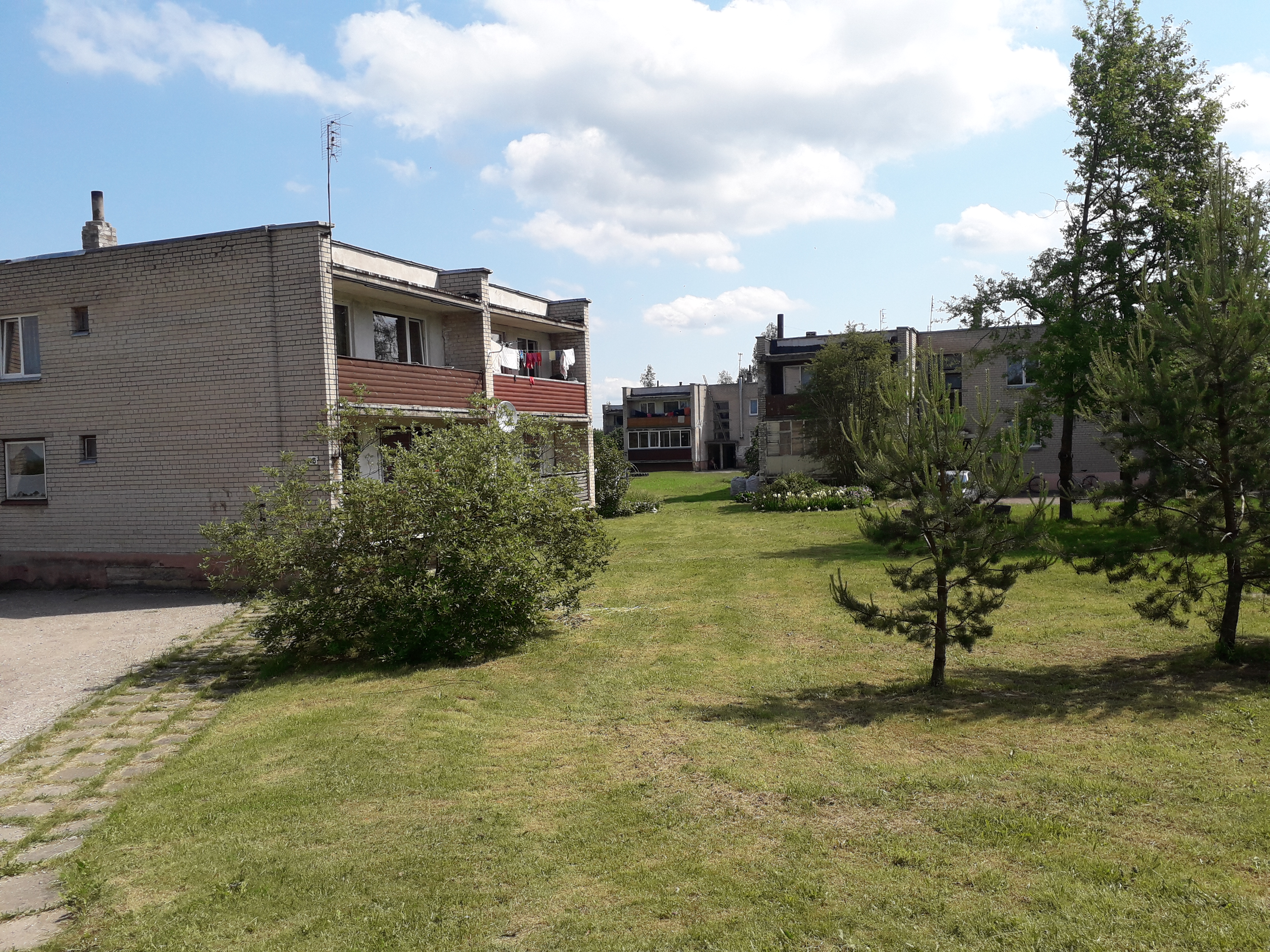 Rudiliai, Kupiškis District, Lithuania